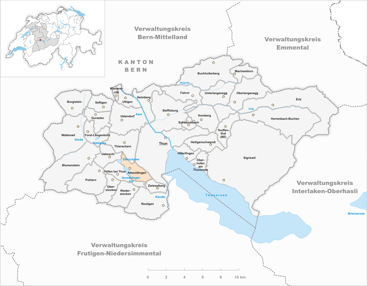 Municipality Amsoldingen